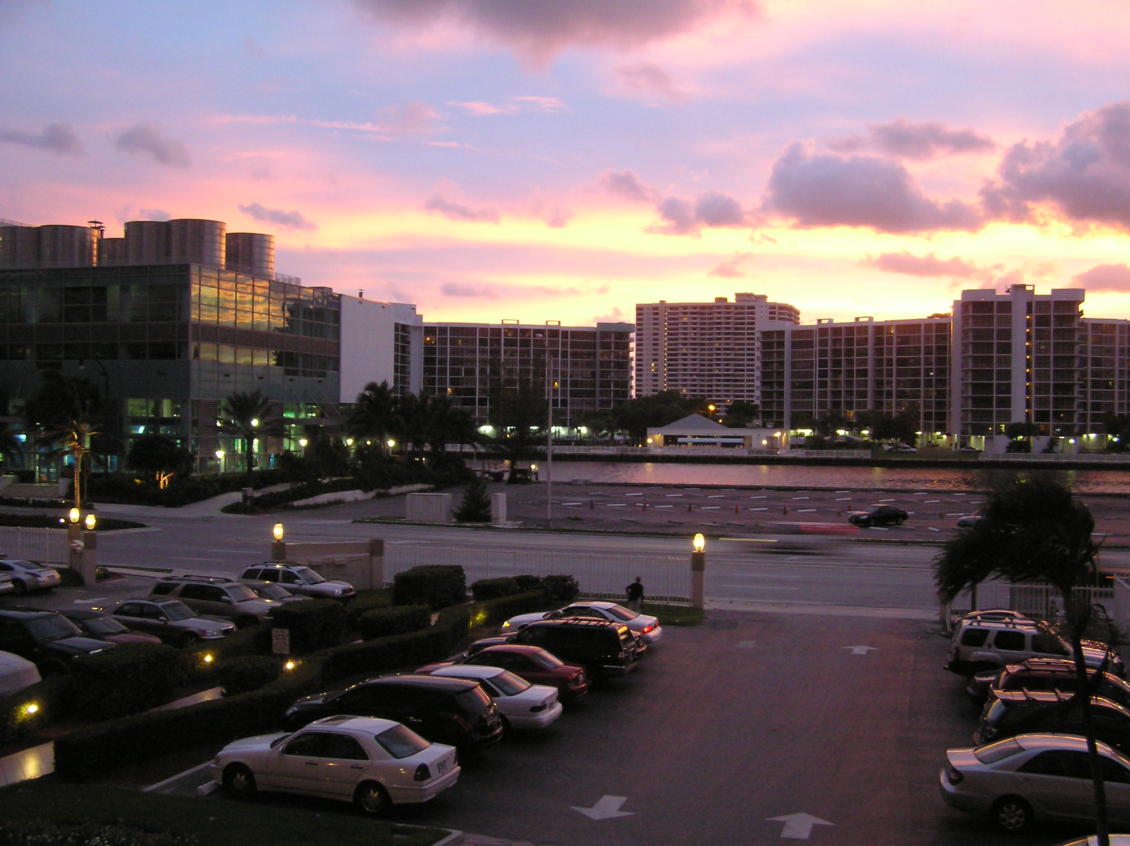 A image of Hallandale Beach, Florida at sunset.